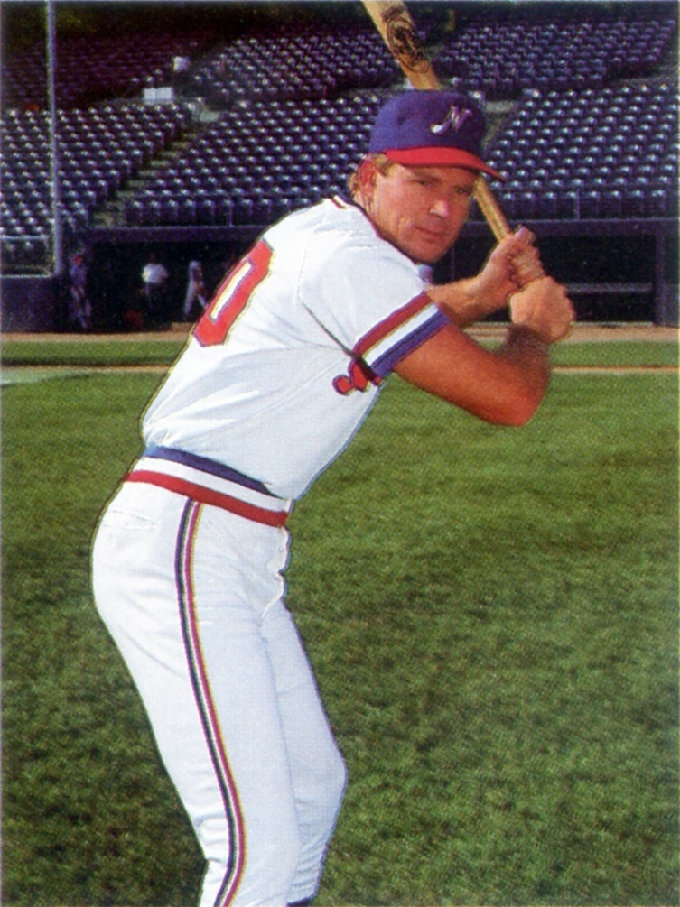 Outfielder Rusty Kuntz of the 1985 Nashville Sounds Minor League Baseball team of the American Association